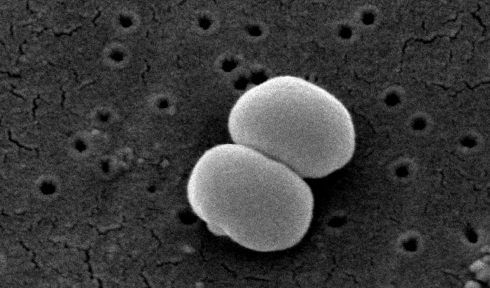 Scanning Electron Micrograph of Staphylococcus epidermidis